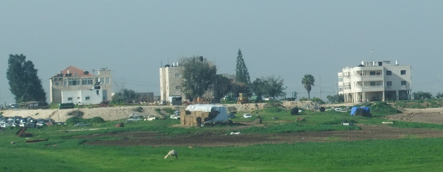 Al-'Azi from route 6